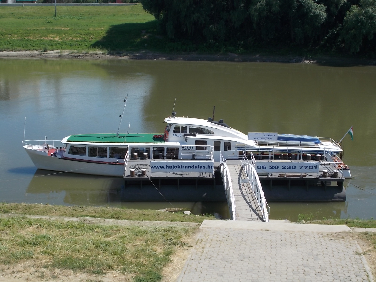 Sellő (ship, 1955) ex Iluska, Class: Mohács 130 class, shuttle boat. ENI Number:8601391. Built: 1955, Horány Shipyard, Horány, HU. Now pleasure boat - Tiszaparti Promenade, Szolnok, Jász-Nagykun-Szolnok County, Hungary.